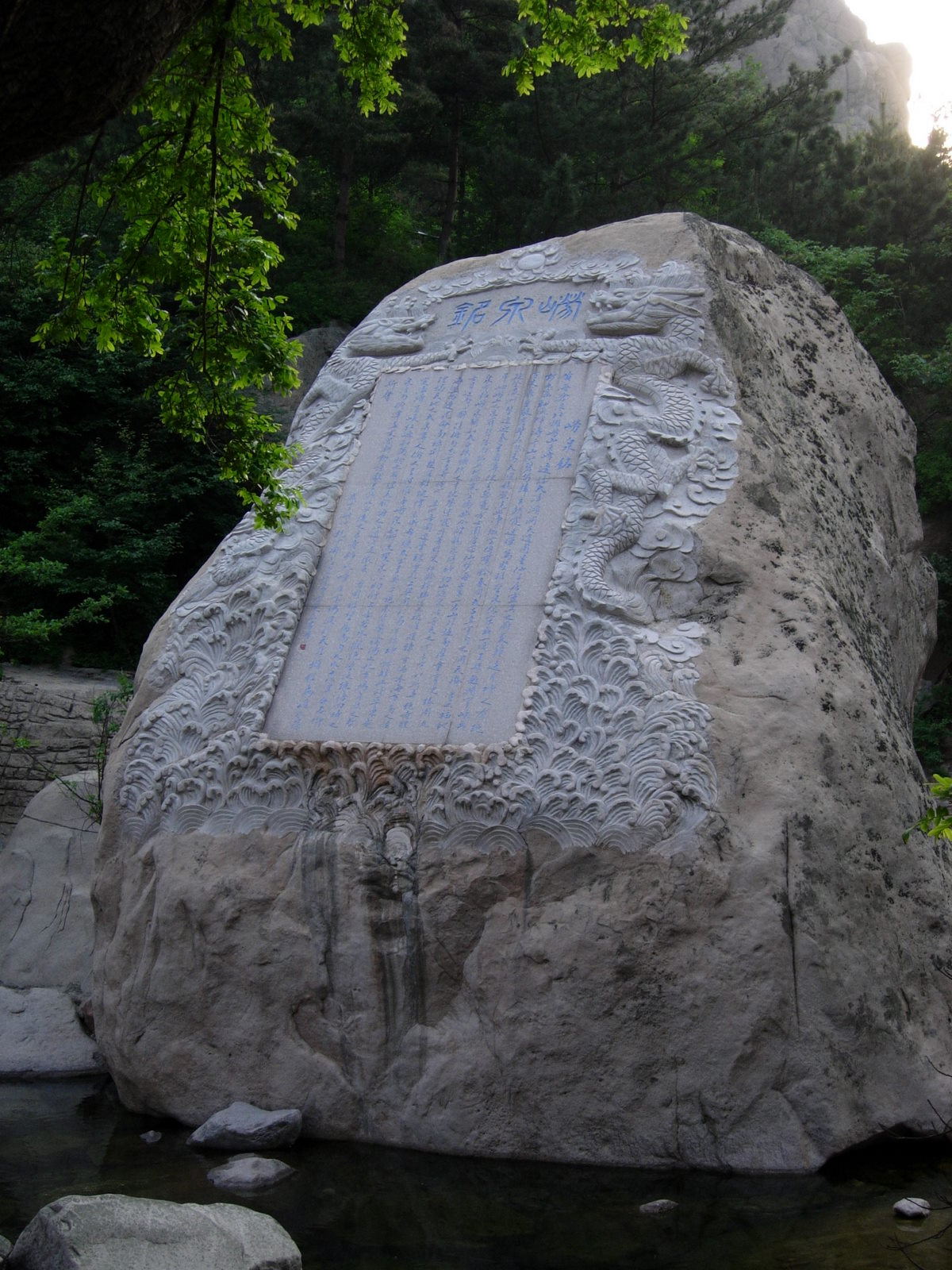 lao spring inscription